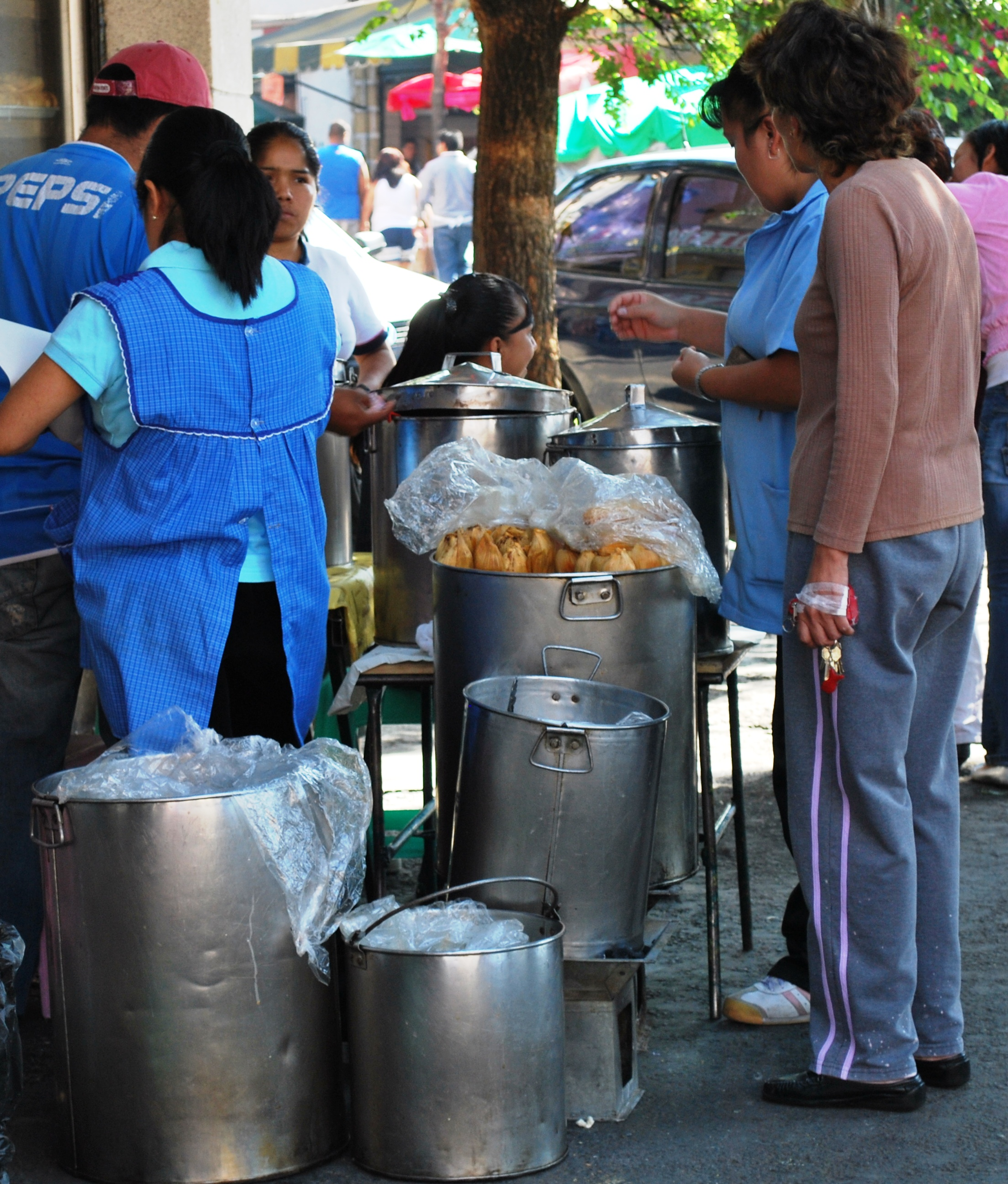 Buying tamales on the street at the intersection of Jose Maria Roa Barcenas and Simon Bolivar in Colonia Obrera in Mexico City